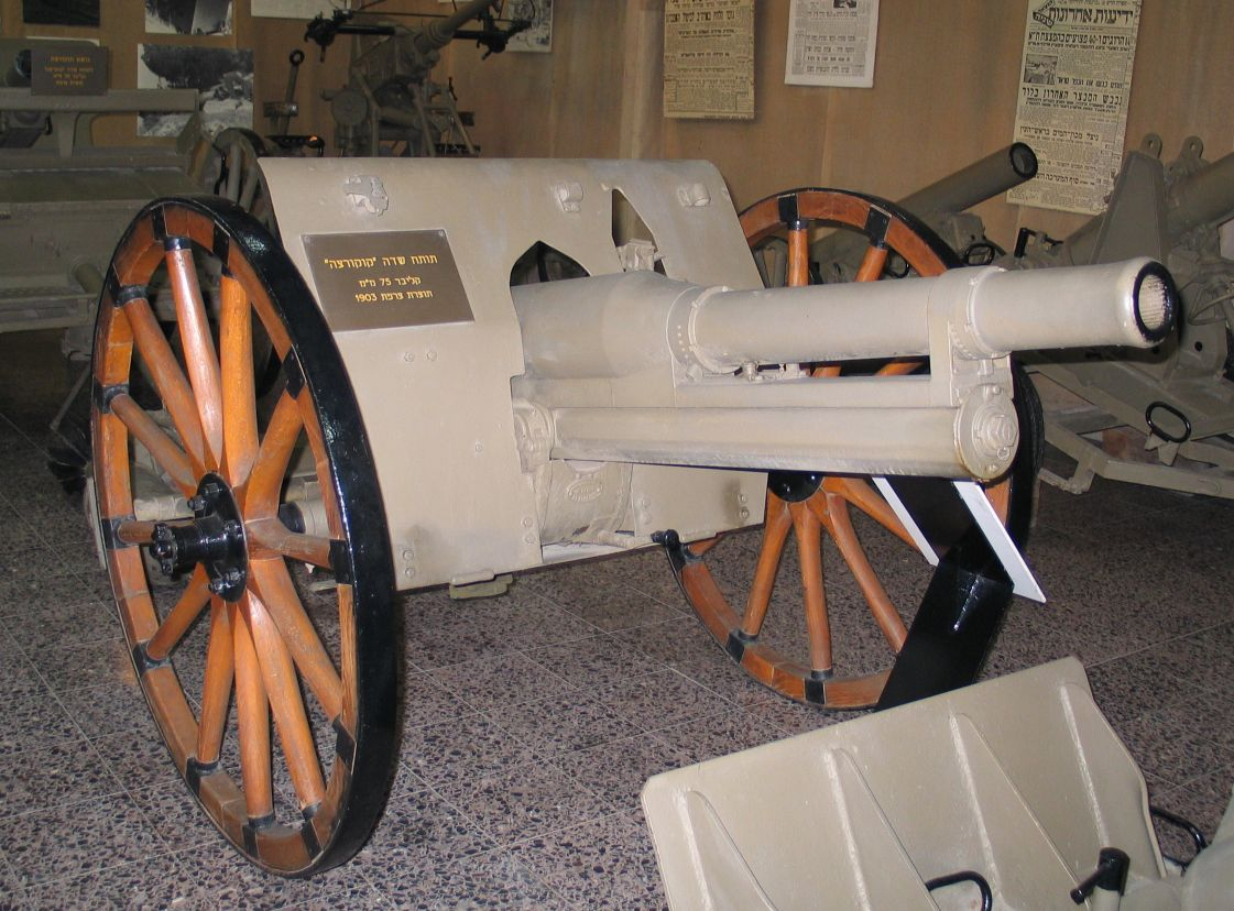 Description: French Canon de Tir Rapide 75 mm St Chamond (known in the IDF as Kukaracha) in Batey ha-Osef Museum, Tel Aviv, Israel. 2005. Source: Photo by me, User:Bukvoed.